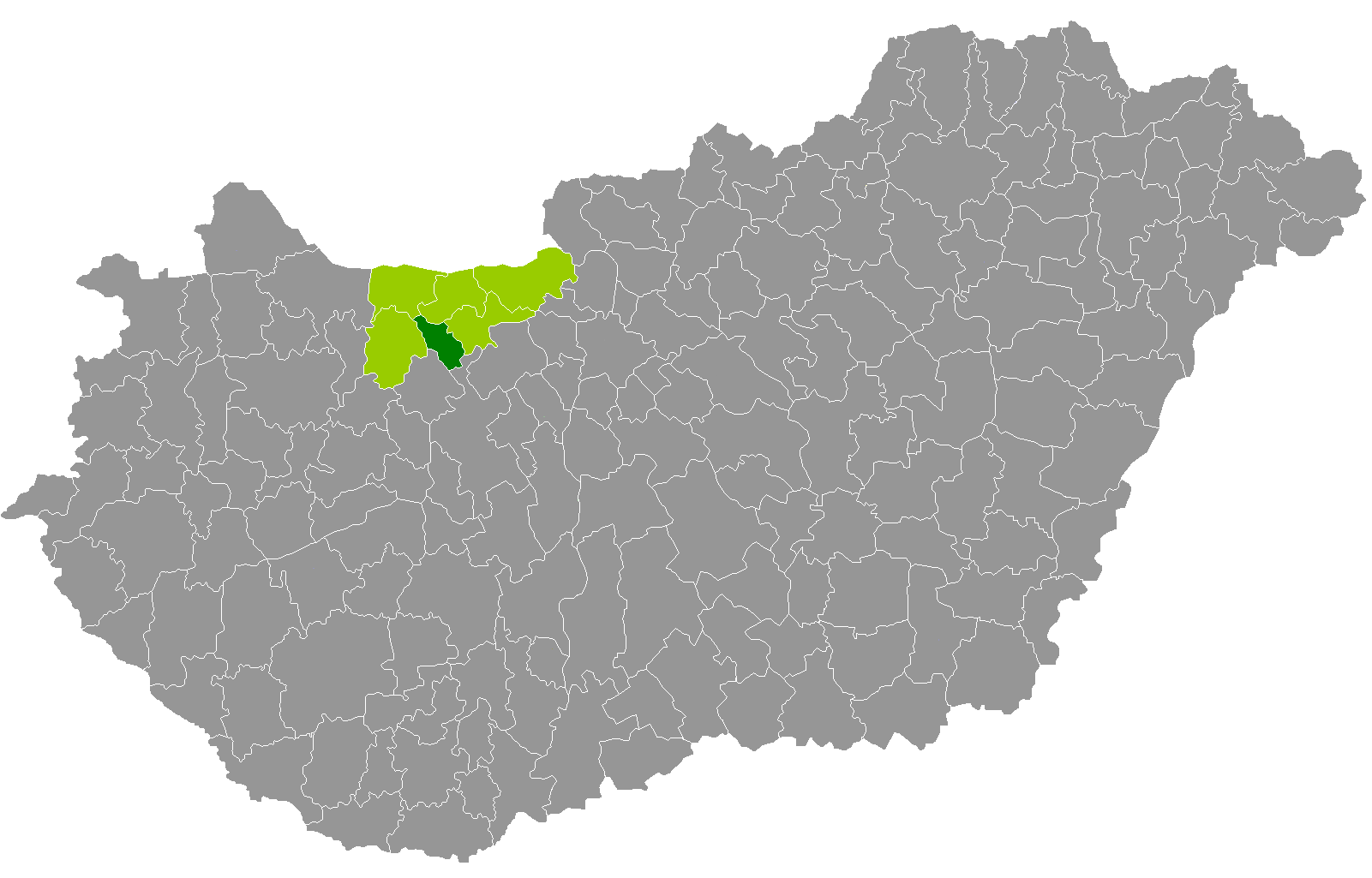 Location of Oroszlány District, Komárom-Esztergom, Hungary